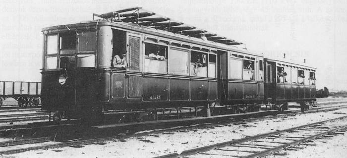 Railcar n°. 14 of ACsEV (United Arad and Csanád Railway Comapny) in Hungary (since 1919 in Romania). One of the first petrol-electric railcars, which were built since 1903, serially since 1905/6, by Johann Weitzer Company (Arad). The internal combustion engine came from De Dion-Bouton, the electric equipment from Siemens-Schuckert